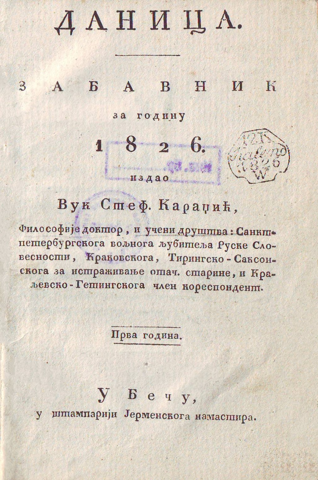 Cover of the first issue of magazine Danica (Morningstar) (1826). Srpski (latinica): Naslovna strana prvog broja časopisa Danica (1826).